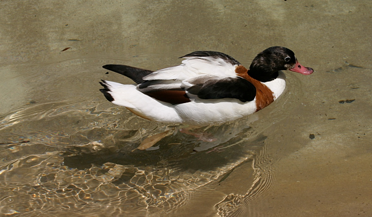 A female Common Shelduck at the San Diego Zoo in San Diego, California, USA.